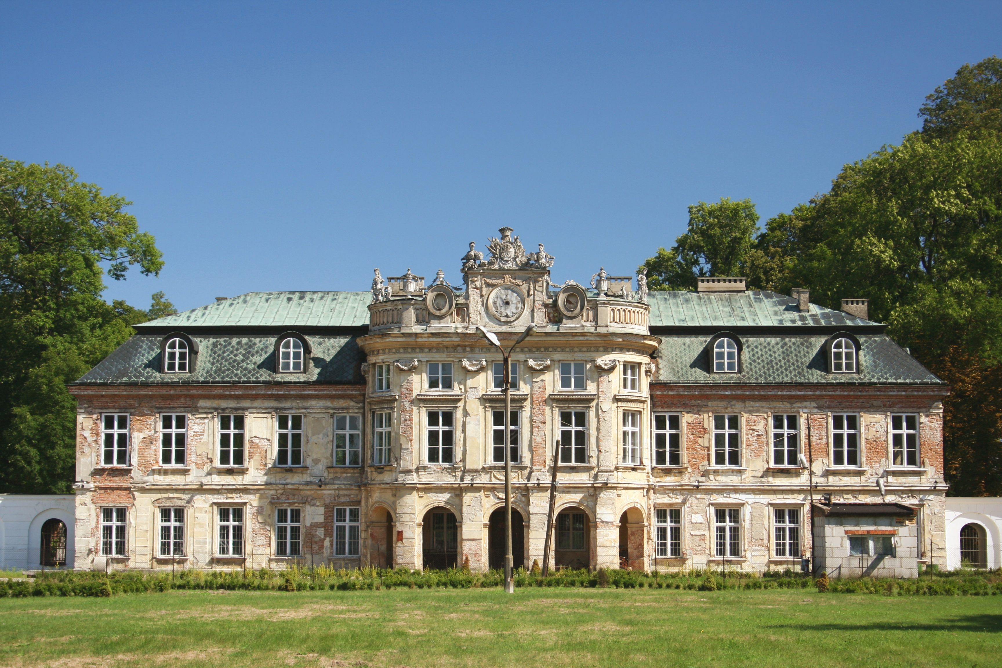 The Dembińscy's Palace in Szczekociny, Poland